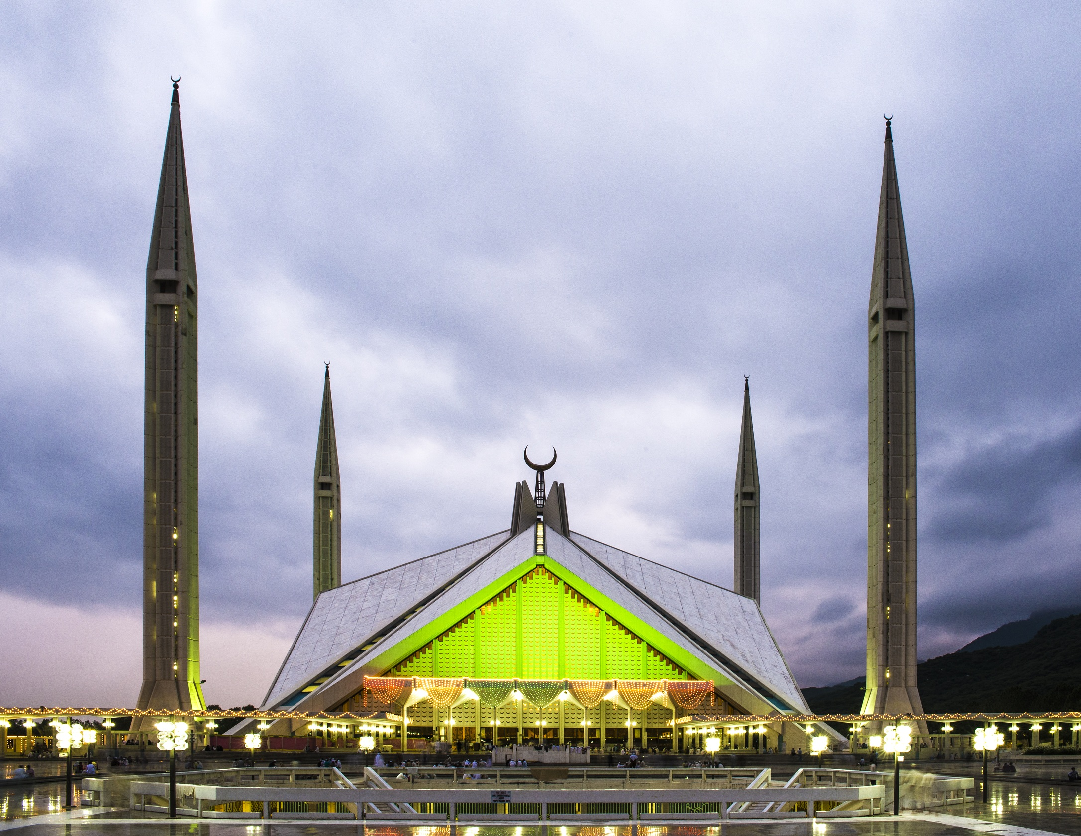 Faisal Mosque This is a photo of a monument in Pakistan identified as the ICT-5